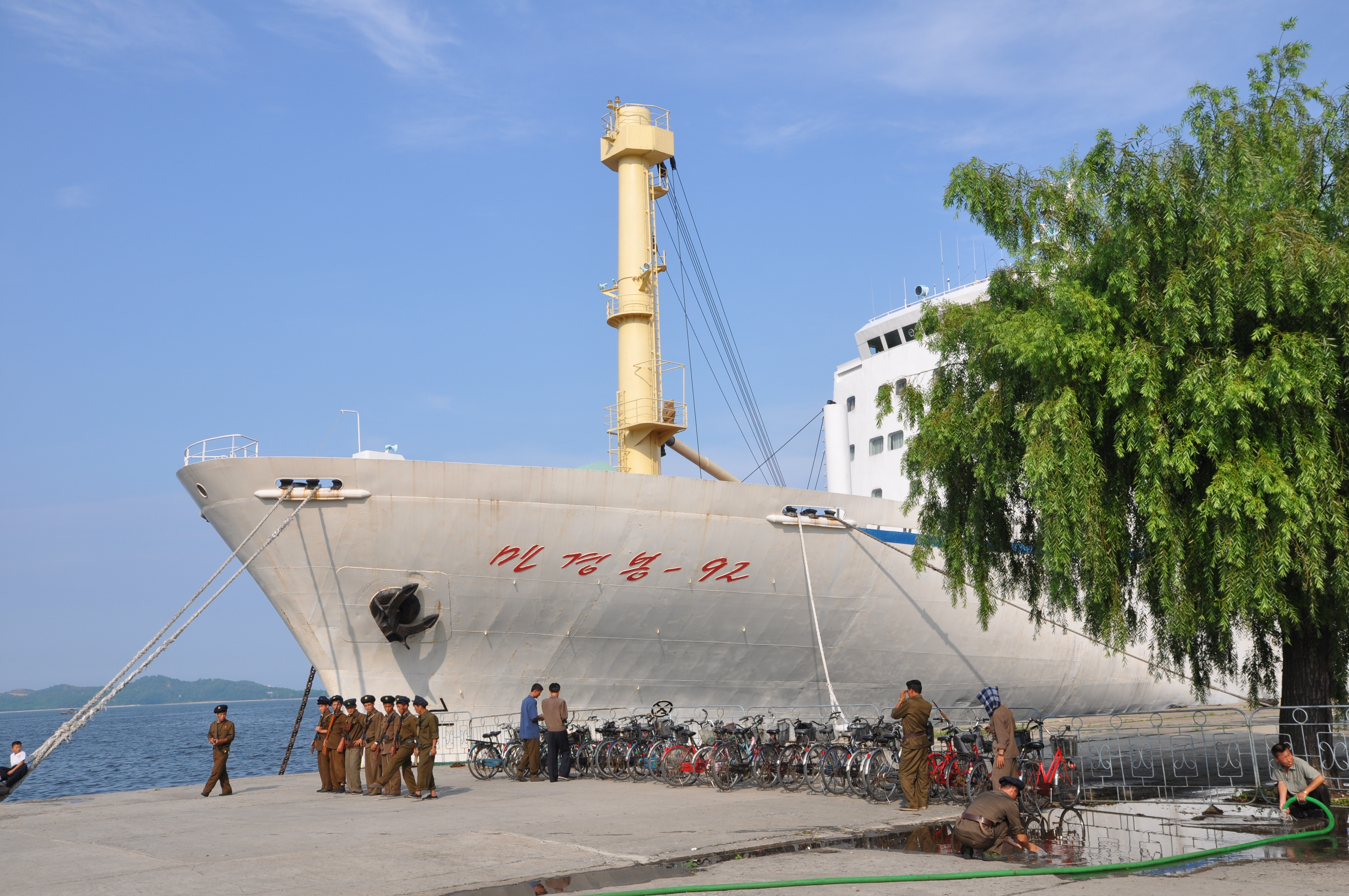 Mangyongbong-92 in Wonsan. IMO Number: 8890580 Callsign: HMZL